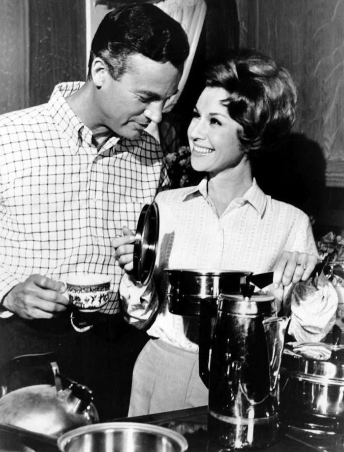 Photo of Mark Miller as Jim Nash and Patricia Crowley as Joan Nash from the television program Please Don't Eat the Daisies.